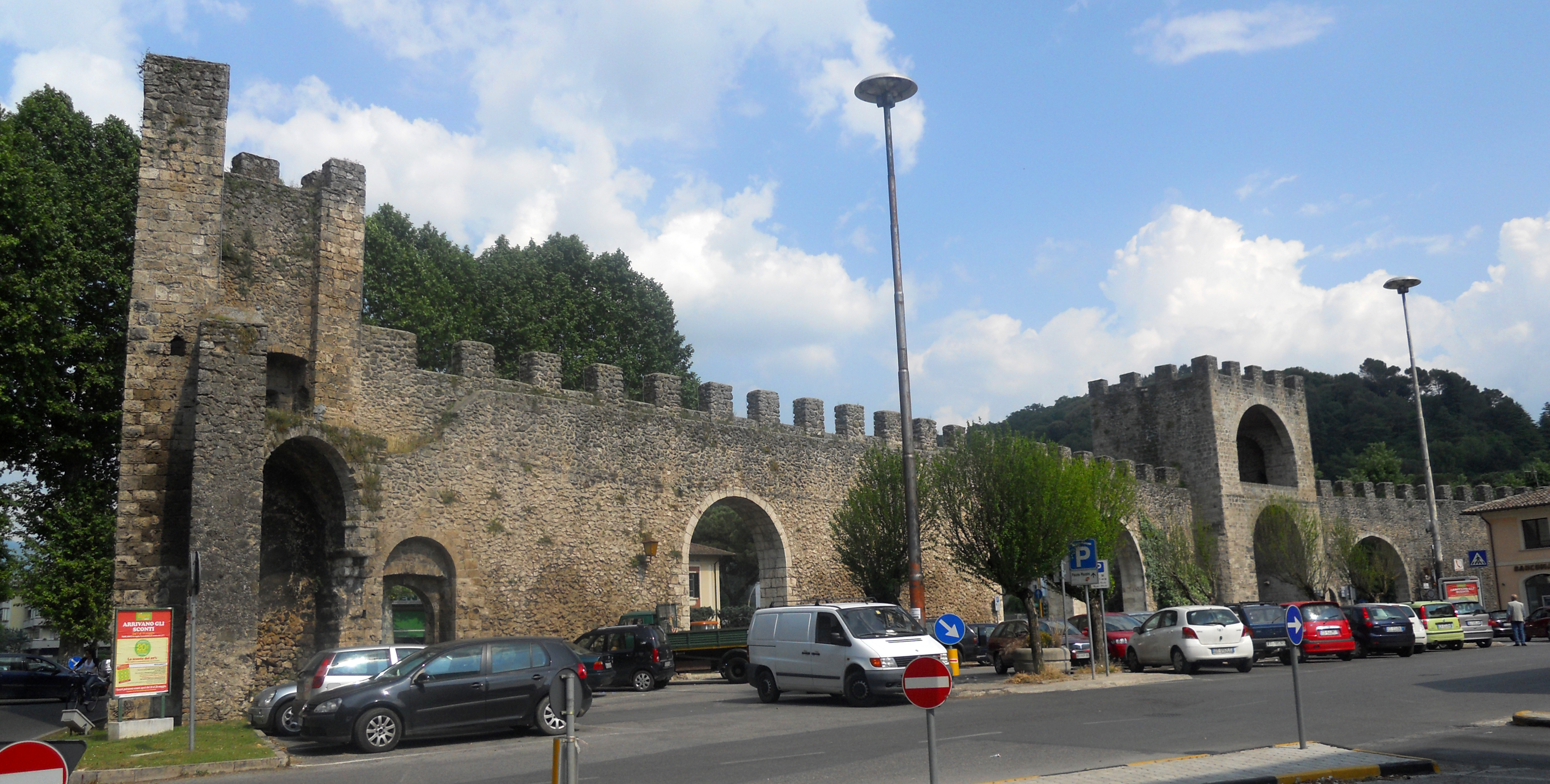 Walls surrounding Porta d'Arci - interior side - Rieti, Italy